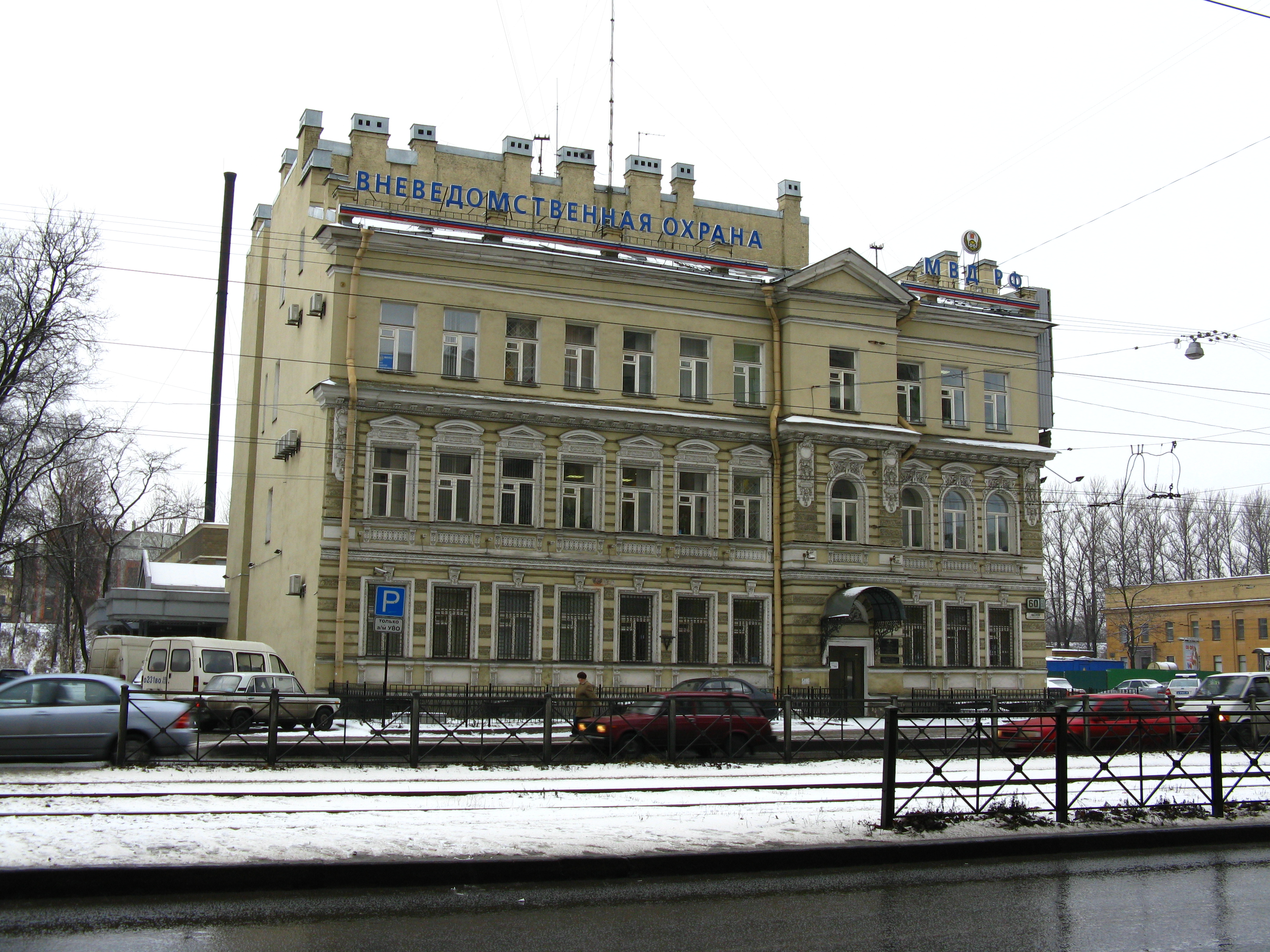 Lesnoy avenue, 60 (architect -Category:Anatoly Kovsharov)